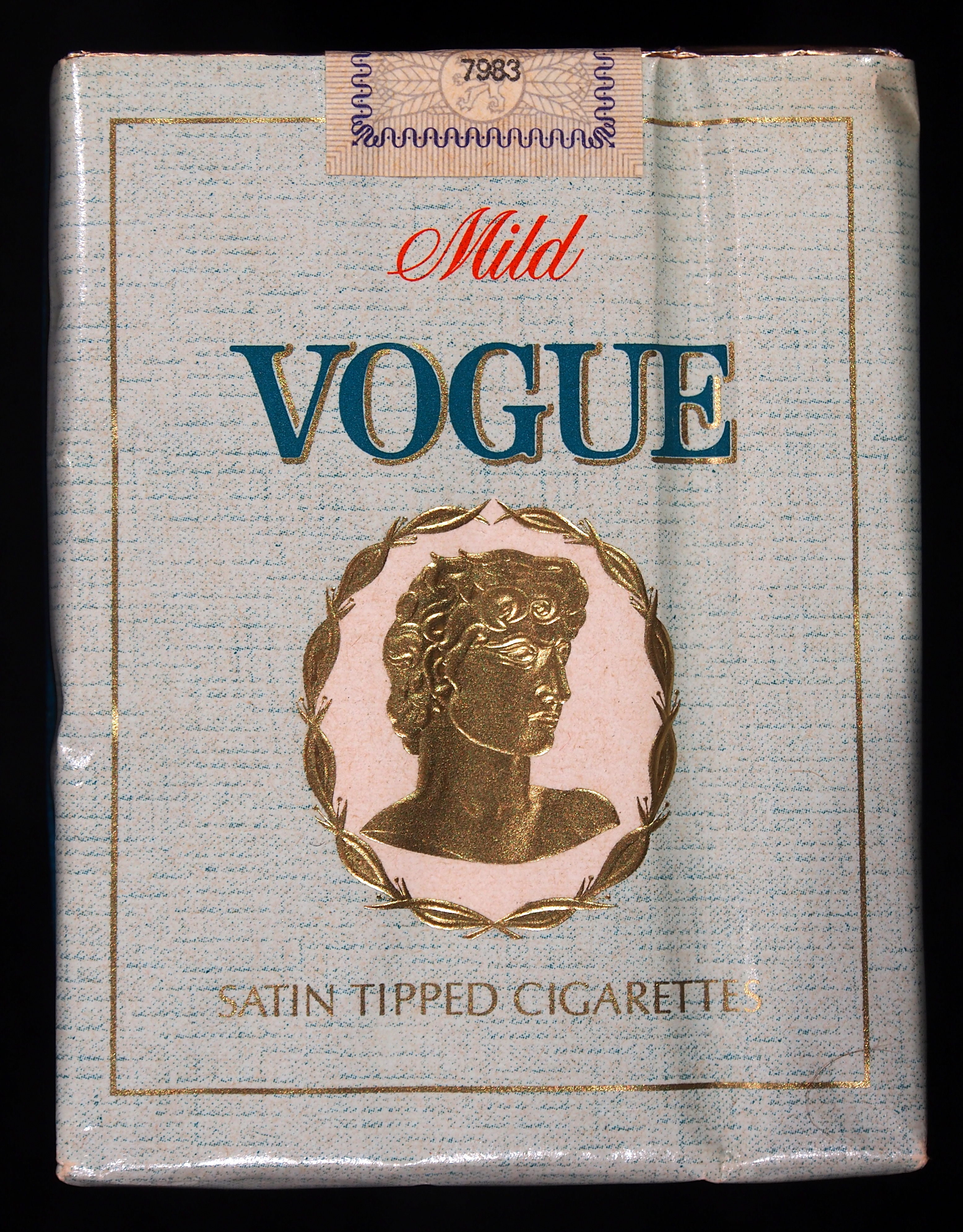 Very old packaging of a product that is not produced and not sold any more.